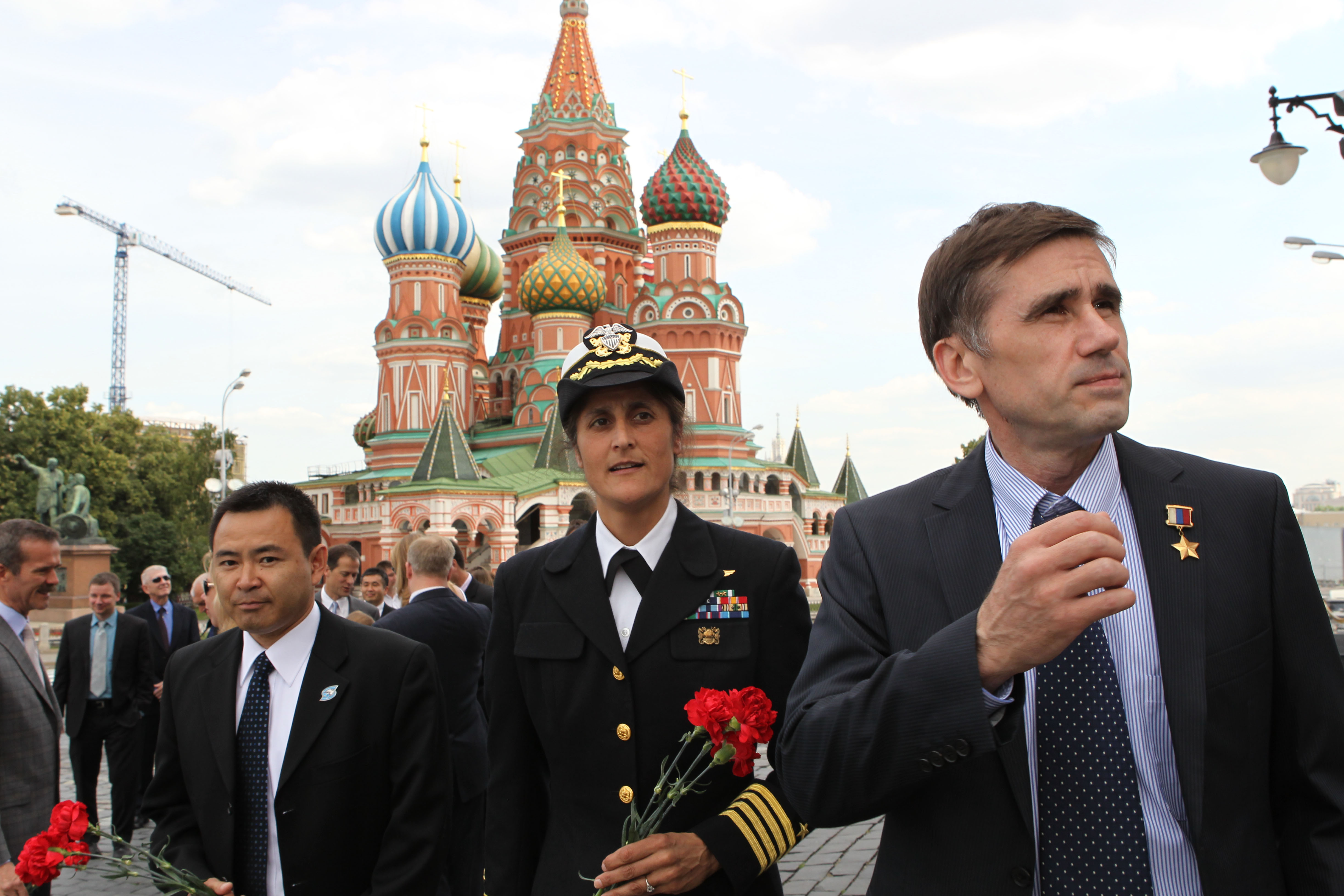 With famous St. Basil's Cathedral as a fitting backdrop, the next trio of residents for the International Space Station pay a traditional visit to Red Square and the Kremlin in Moscow June 22, 2012 to lay flowers at the Kremlin Wall where Russian space icons are interred. Expedition 32 Flight Engineer Aki Hoshide of the Japan Aerospace Exploration Agency (left), NASA Flight Engineer Sunita Williams (center) and Soyuz Commander Yuri Malenchenko (right) will travel to the Baikonur Cosmodrome in Kazakhstan July 2 for final preparations for their scheduled launch to the station July 15 (Kazakhstan time) in their Soyuz TMA-05M spacecraft.